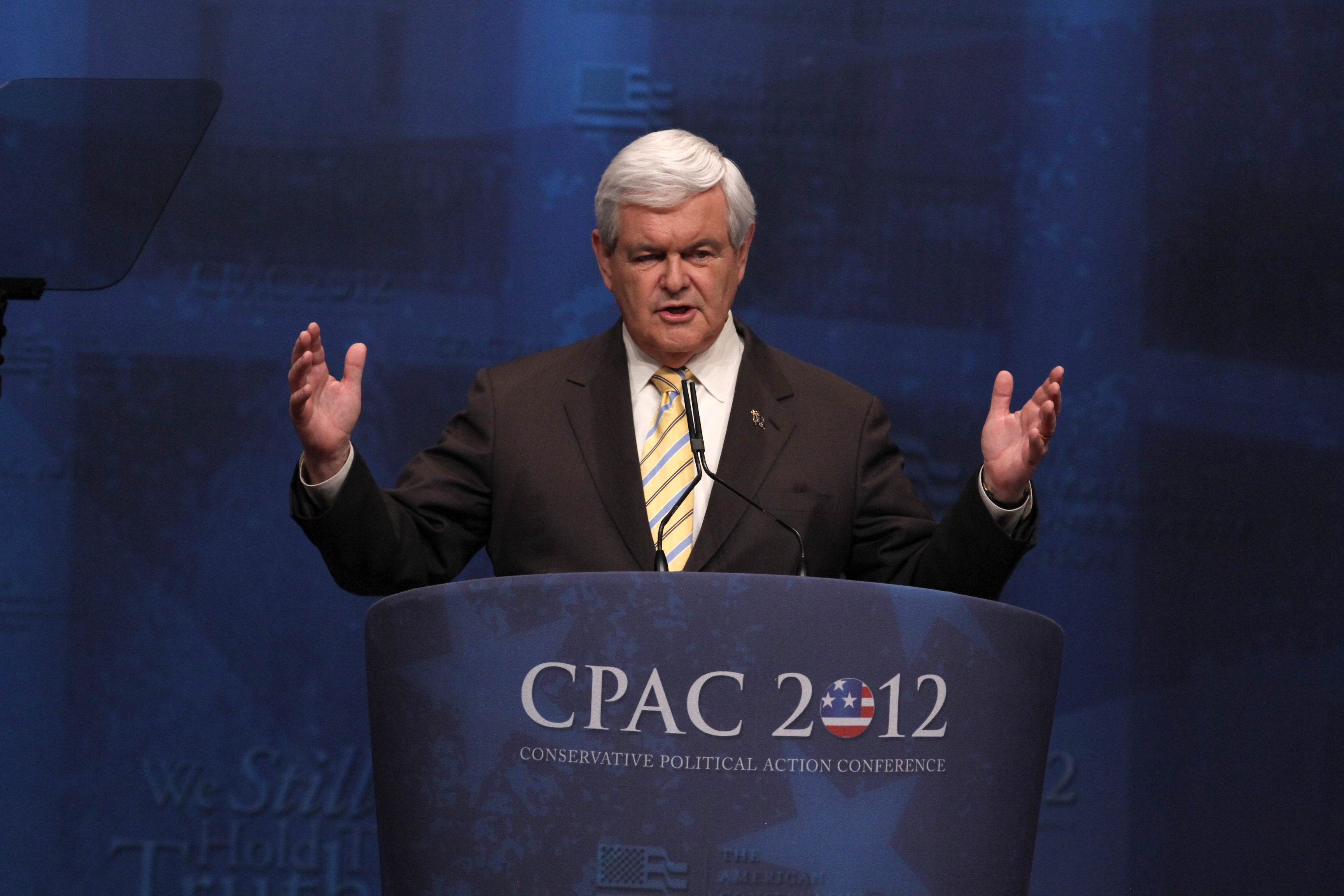 Unedited photos, I will edit and upload these and MORE. I have over 3000 photos... I also have Obama photos from INSIDE the White House Press Room.